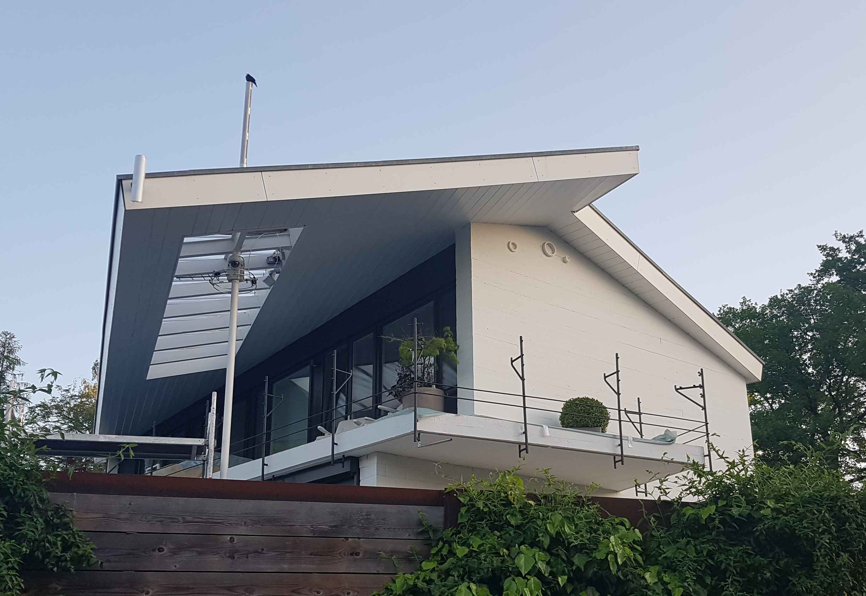 Paul Stohrer: Residential House in Stuttgart-Schönberg, 1957/58